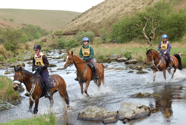 Crossing Badgworthy Water. Riders crossing in a south west direction heading towards the remains of the medieval village.